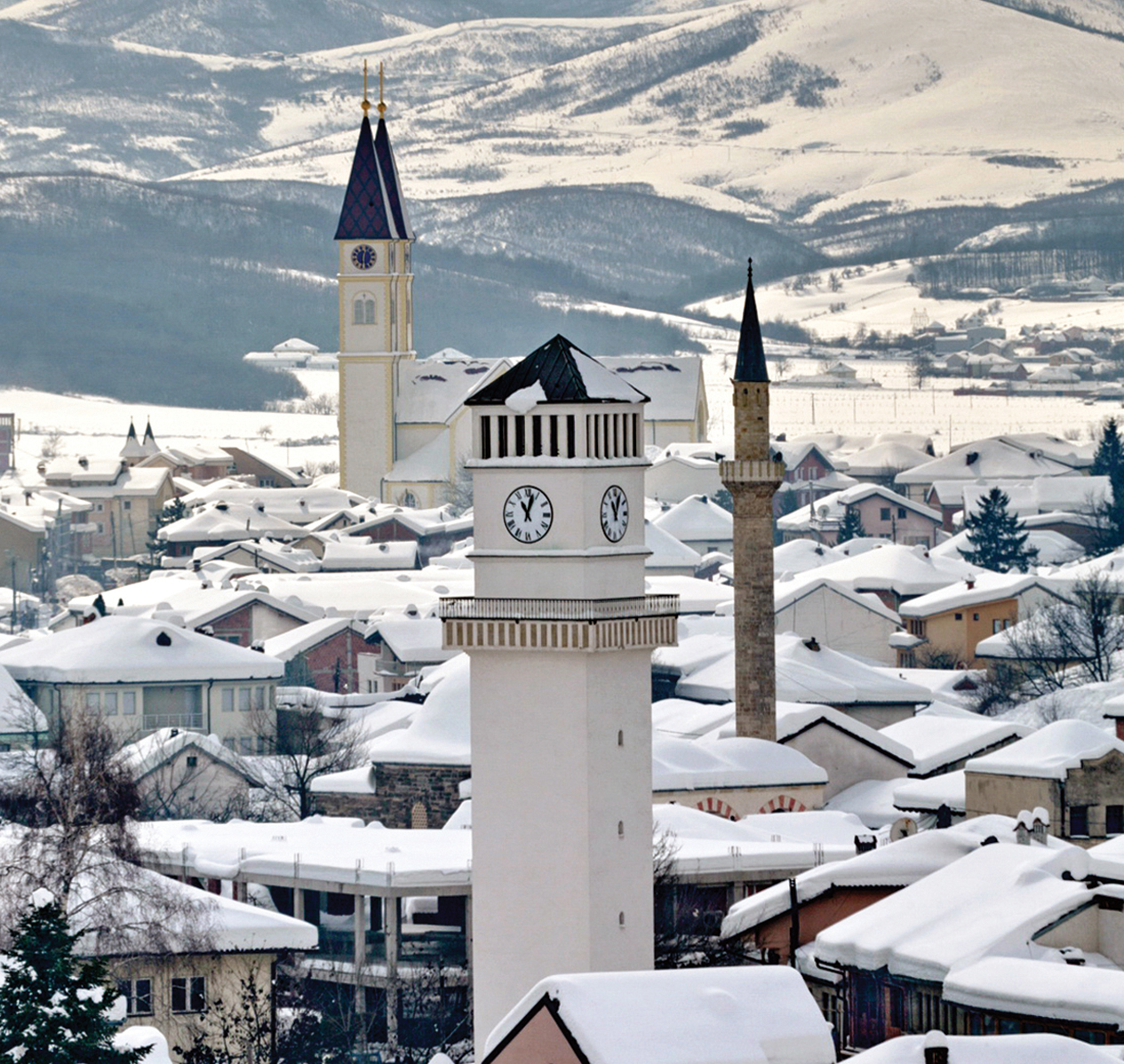 Gajakova, Cultural Harmony